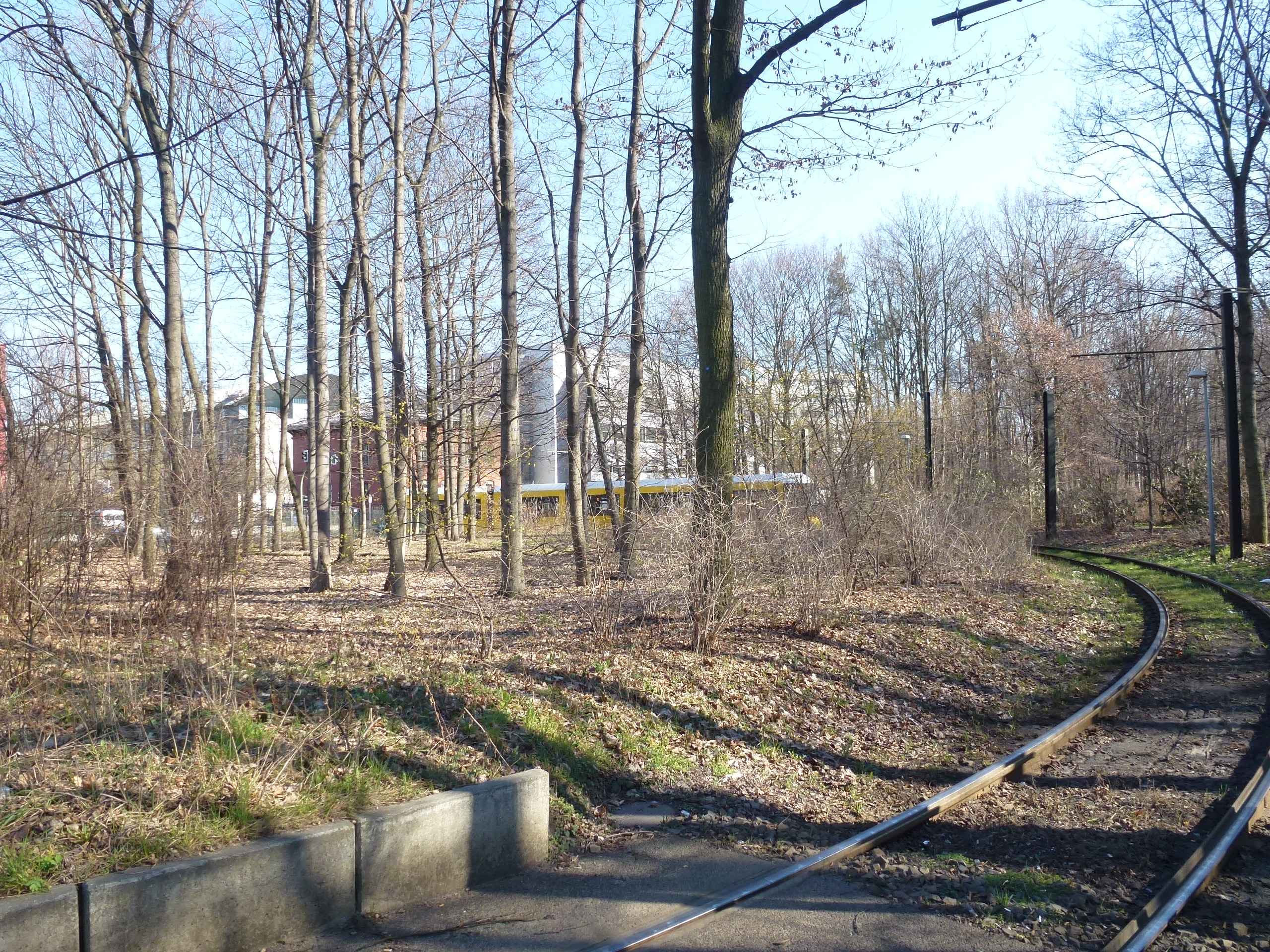 Berlin-Wedding Eckernförder Platz